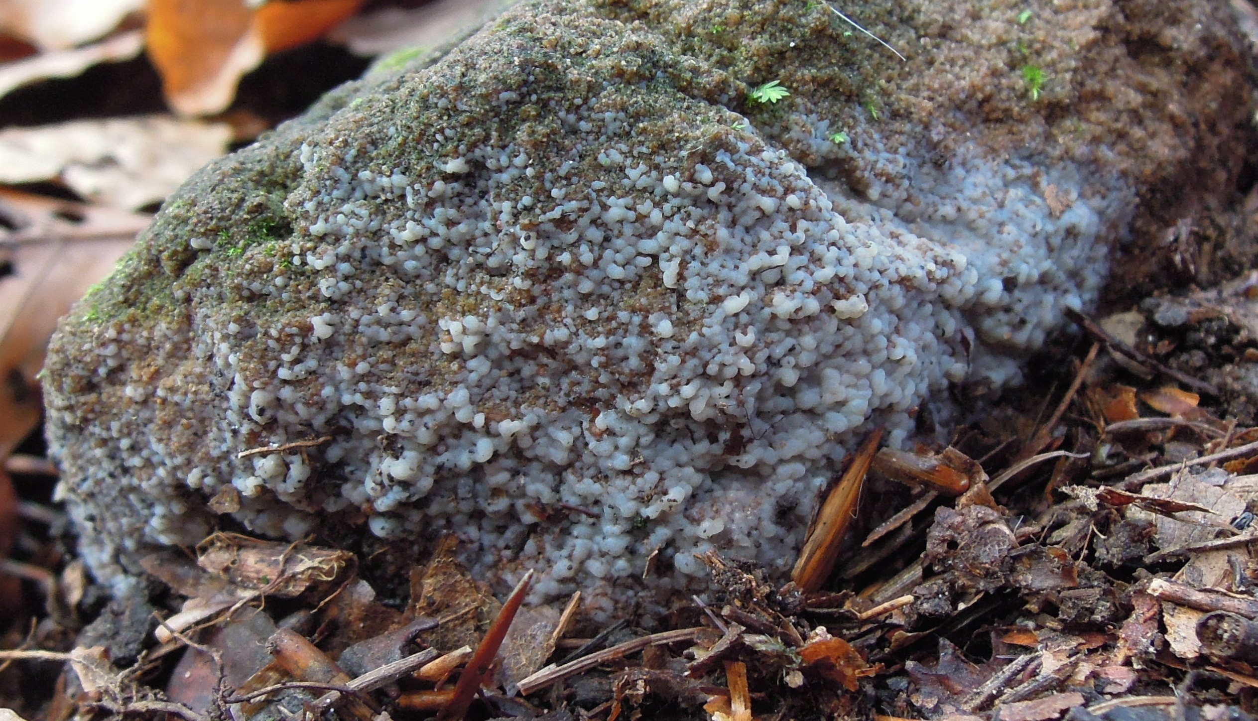 Fruiting body of Sebacina epigaea (Sebacinales).